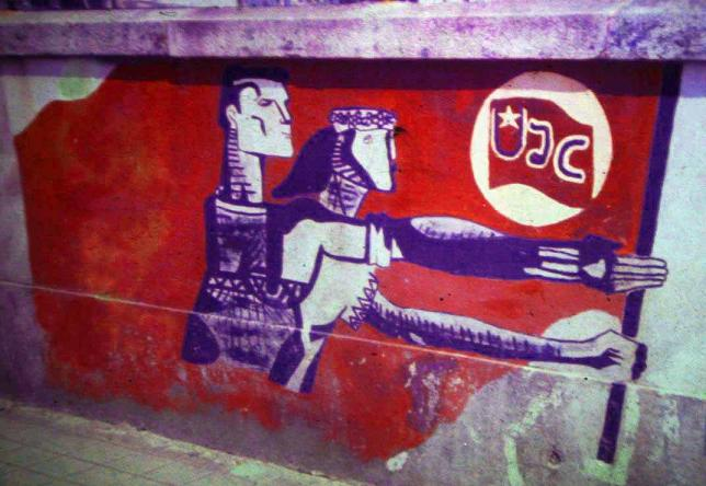 UJC Union of Youth Communist